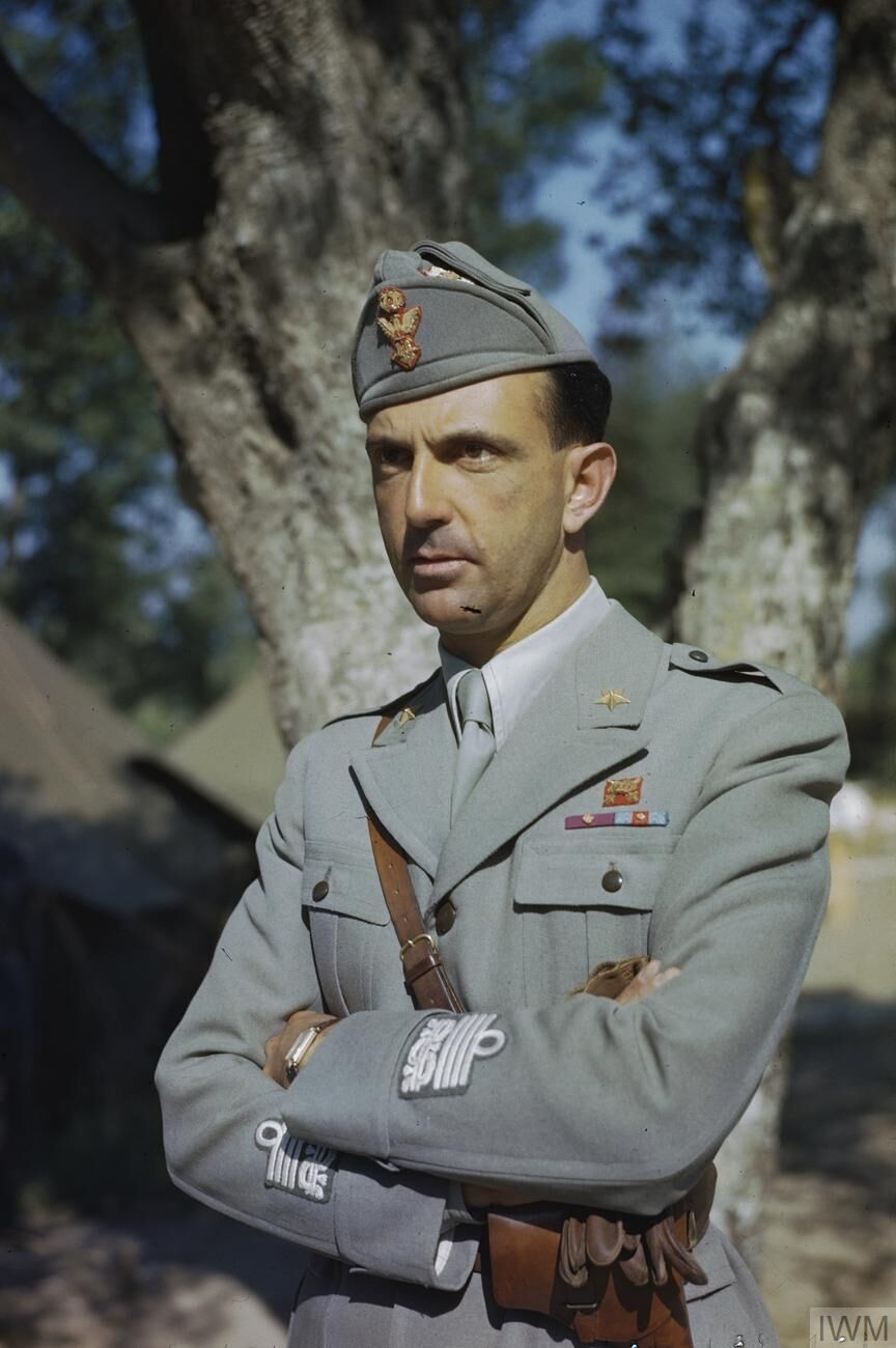 Hrh Prince Umberto of Italy, May 1944 HRH Prince Umberto during his visit to the troops during his visit to the Italian Corps of Liberation, Sparanise and Polipo, Naples, Italy.